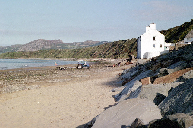 Beach at Morfa Nefyn.